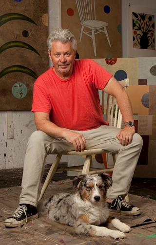 Photo of Dan Rizzie and his faithful dog Trixie